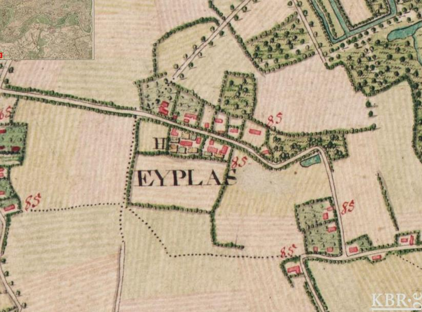 Historic map that older than 100 years